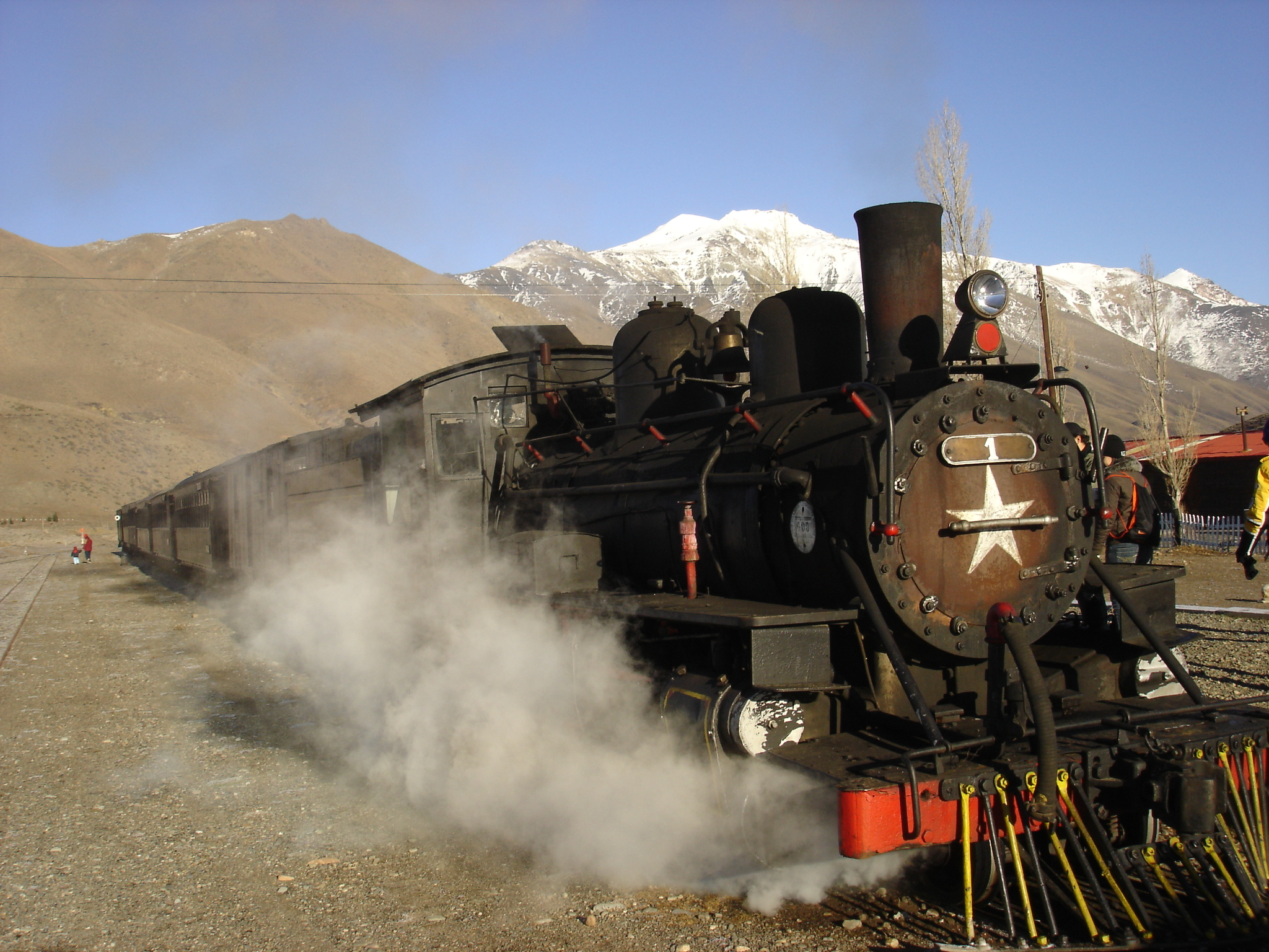 original image description on Flickr: La Trochita, (El Viejo Expreso Patagónico), in English known as the Old Patagonian Express, is a 750 mm (2 ft 5+1⁄2 in) narrow gauge railway in Patagonia, Argentina using steam locomotives. The nickname La Trochita means literally "The Little Narrow Gauge" in Spanish. It is 402 km in length and runs through the foothills of the Andes between Esquel and El Maiten in Chubut Province and Ingeniero Jacobacci in Río Negro Province,[1] originally it was part of Ferrocarriles Patagónicos, a network of railways in southern Argentina. Nowadays, with its original character largely unchanged, it operates as a heritage railway and was made internationally famous by the 1978 Paul Theroux book The Old Patagonian Express, which described it as the railway almost at the end of the world.